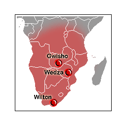 Location of remains of Wilton Culture (6000 BCE), in Mashonaland East, Zimbabwe